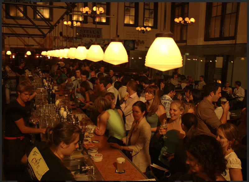 Belgian Beer cafe in sidney